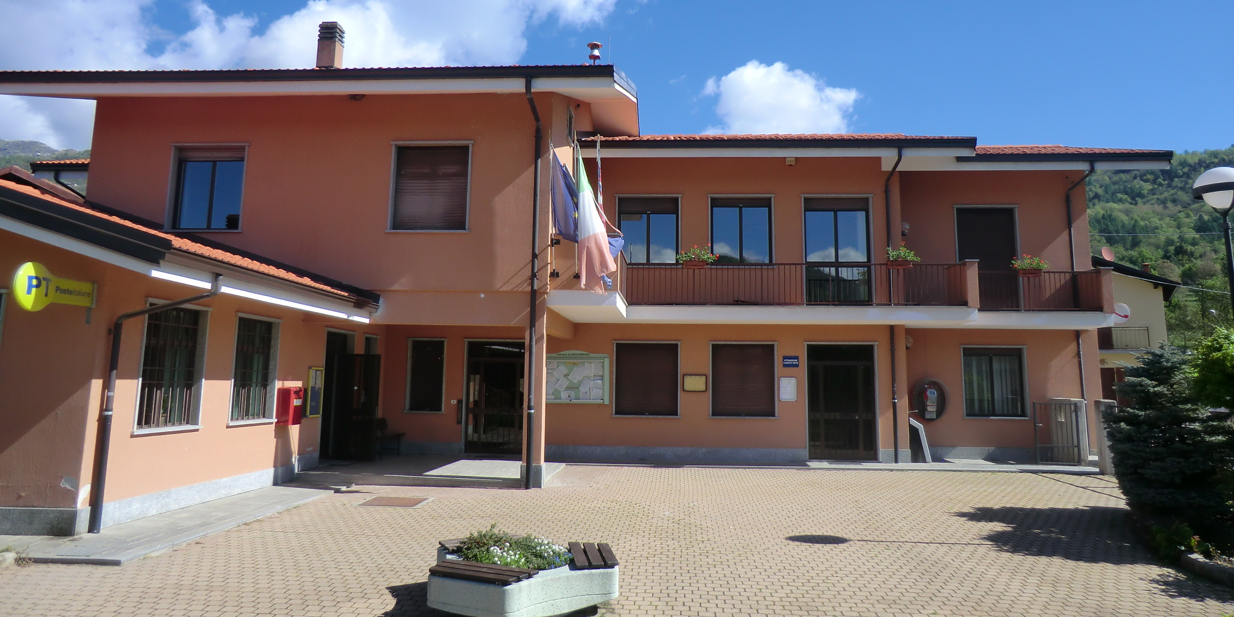 Roccabruna (Cuneo - Italy): city hall